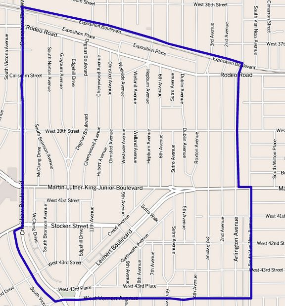 Map of Leimert Park, as limned by the Los Angeles Times. Other information Boundary map as drawn by the Los Angeles Times on a CC-by-SA background. Note at bottom right of map on the L.A. Times website noted above says "CC-by-SA" (which gives permission to use the map). There is a link there to which explains the meaning thereof. The base map is credited to The Times spells all this out at